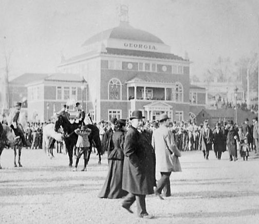 President Grover Cleveland at the Cotton States and International Exposition, Atlanta, 1887 (file title is not correct this is 1887 not 1895)